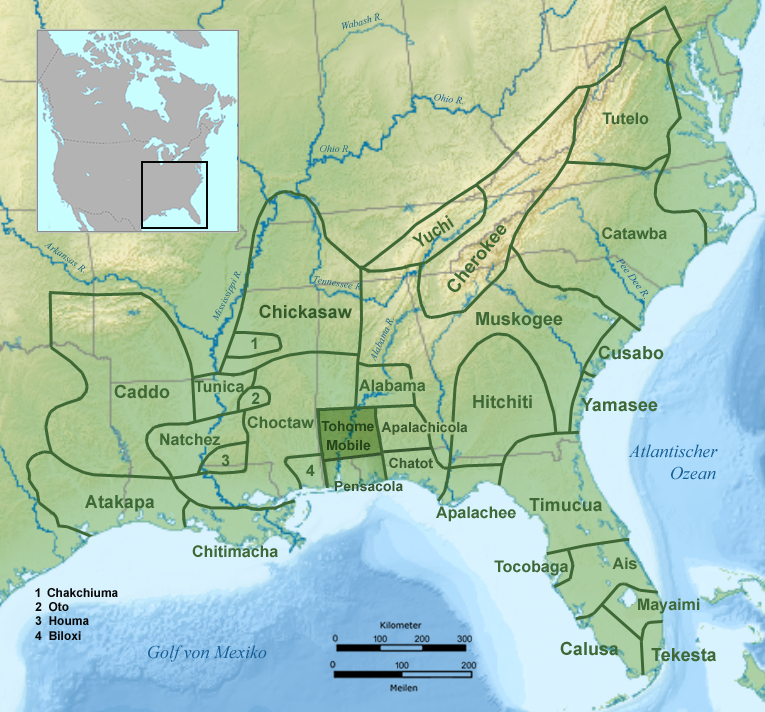 Tribal territory of Mobile during sixteenth century